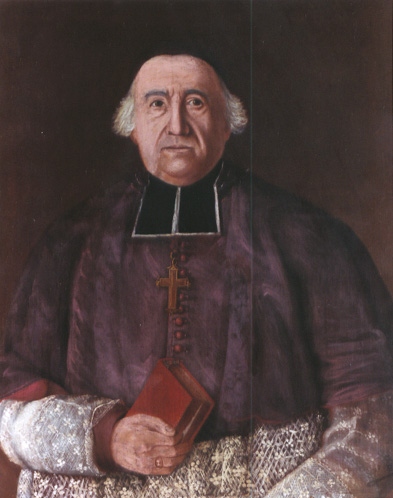 Portrait of Bishop Jean-Olivier Briand